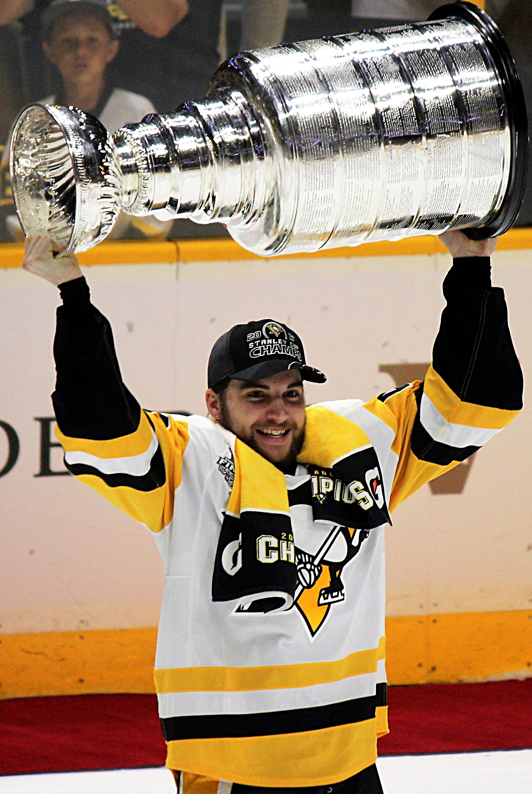 Pittsburgh Penguins forward Conor Sheary raises the Stanley Cup, June 11, 2017, at Bridgestone Arena in Nashville, TN.